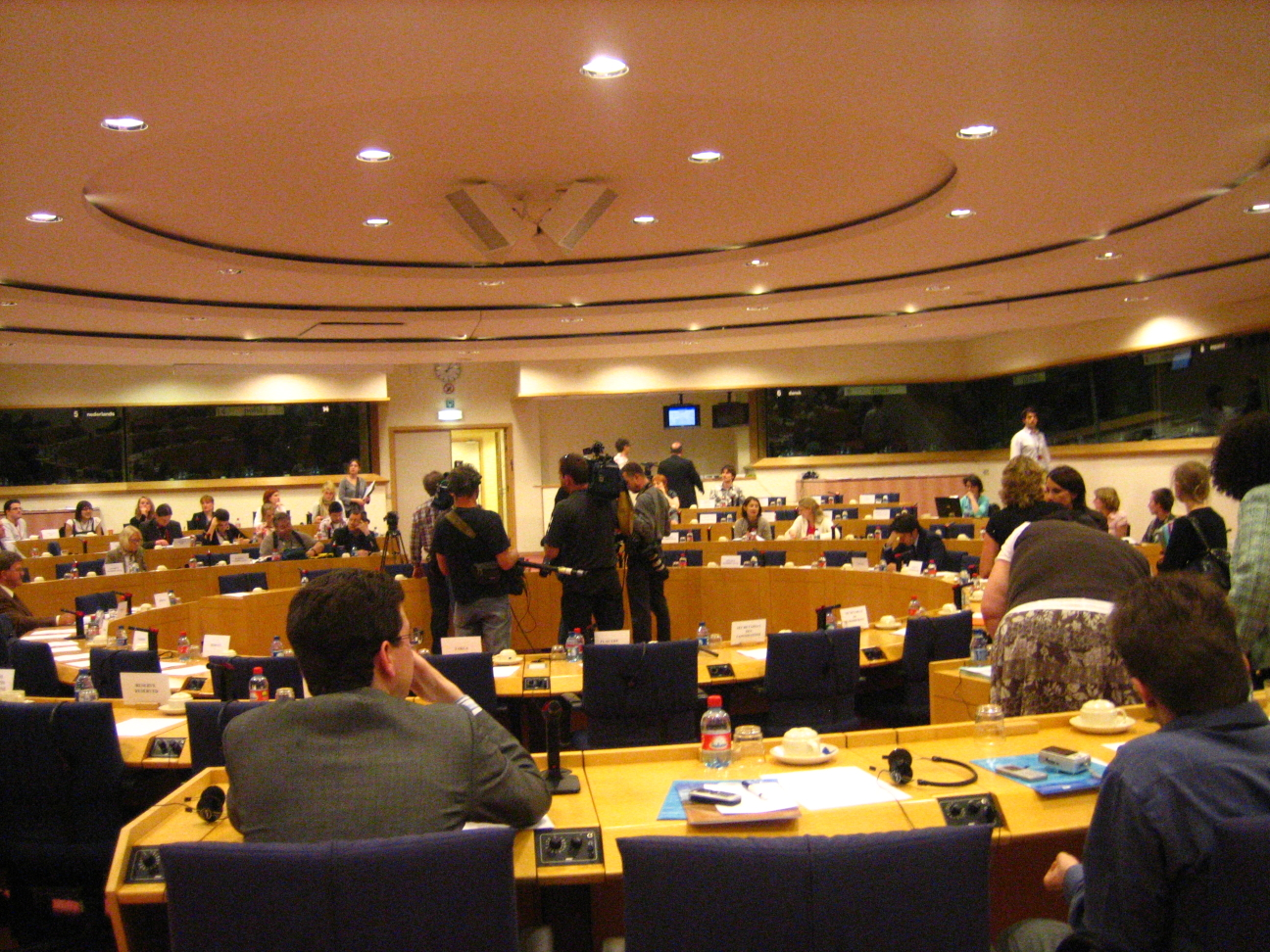 A Committee Room in the European Parliament (Brussels)